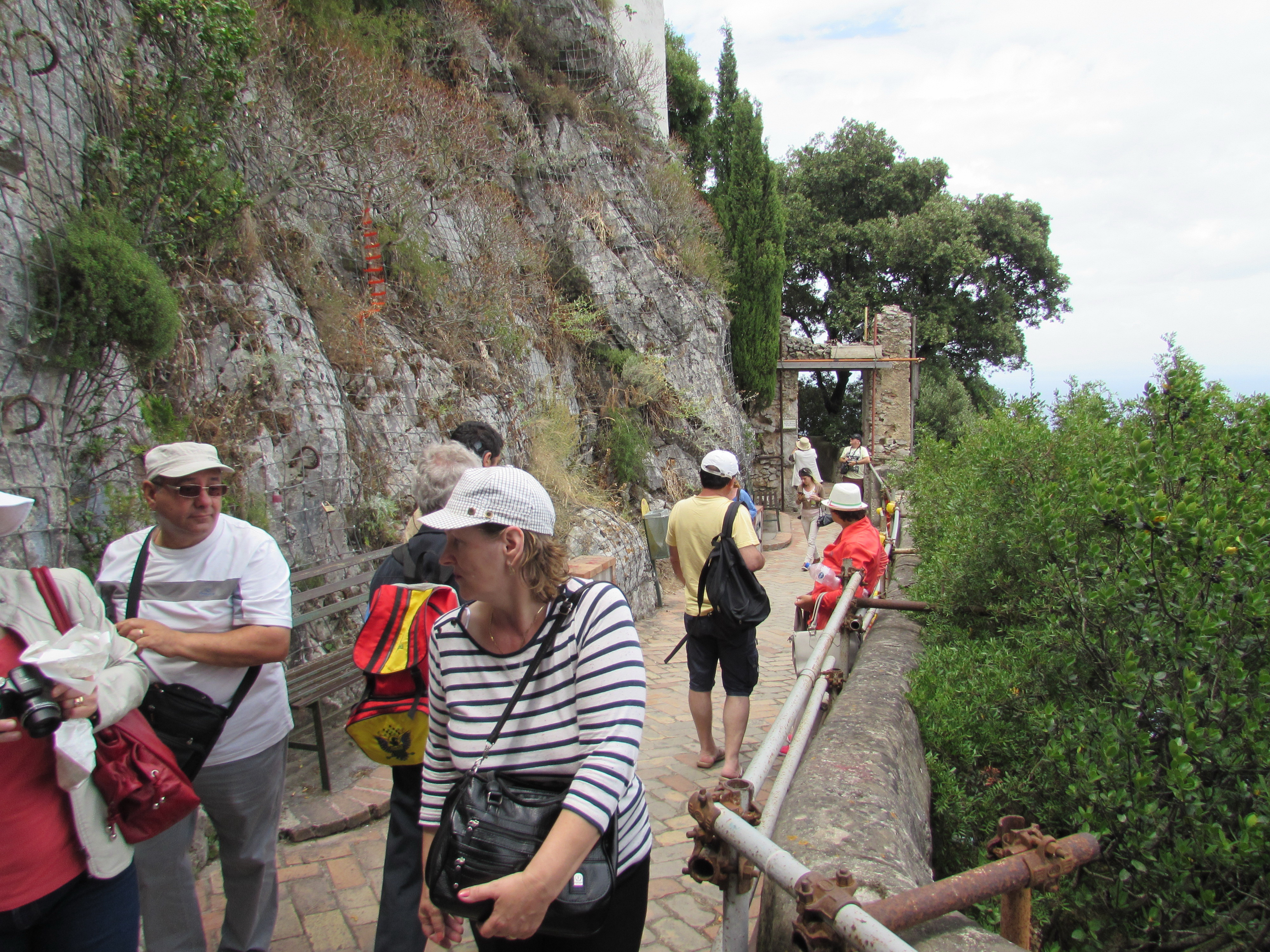 Image of Anacapri